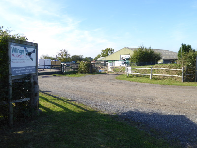 Wings Museum on Brantbridge Lane